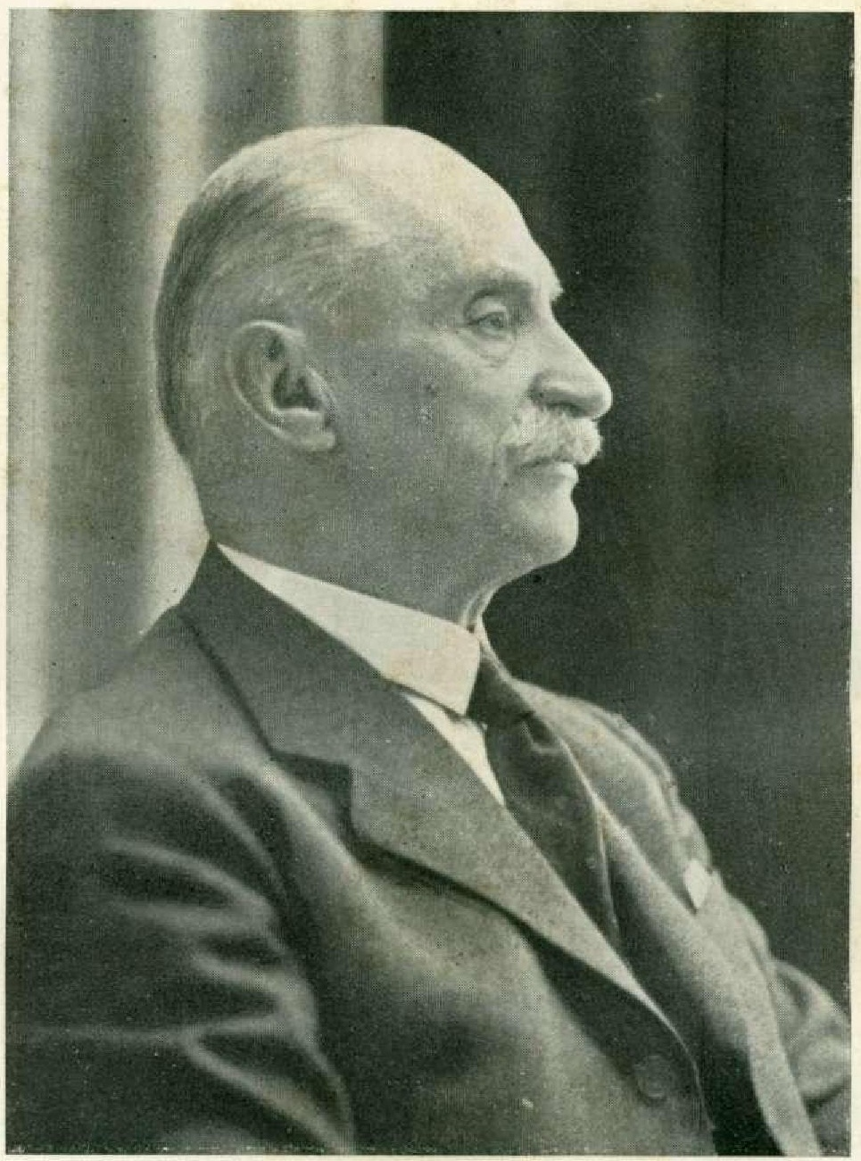 Károly Kaán portrait